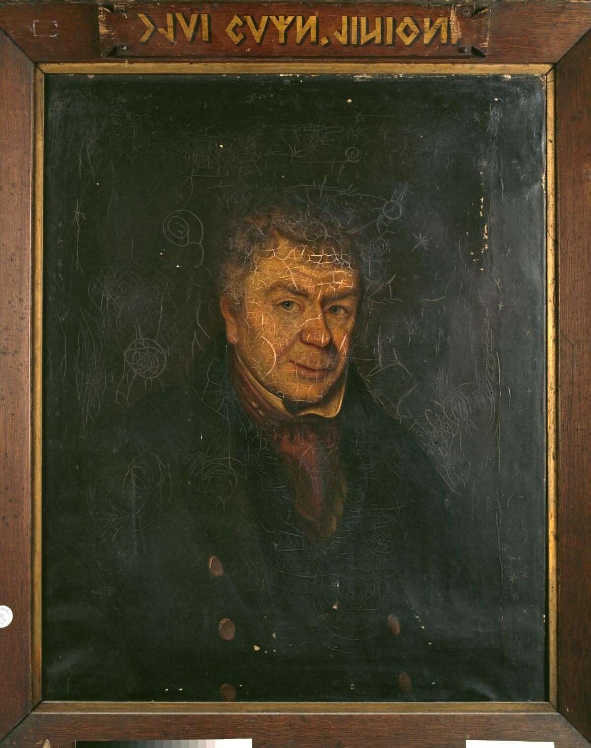 A painting from the Framed Works of Art collection at the National Library of wales. The title at the top of the frame is written in Coelbren y Beirdd letters: "Dewi Gwyn.Eivion" (=Dewi Wyn o Eifion).